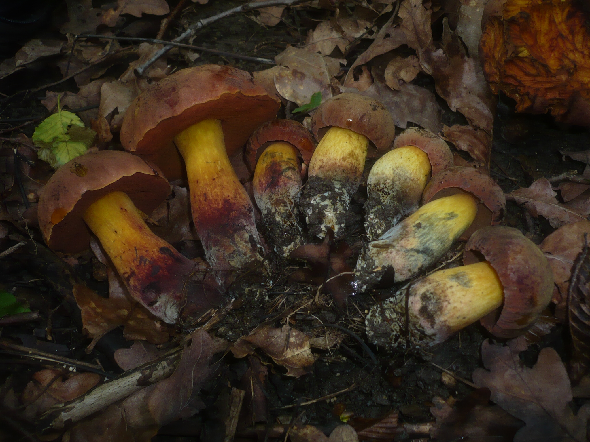 Boletus queletii Schulzer Image location: Schattendorfer Wald, Schattendorf, Bezirk Mattersburg, Burgenland, Austria Recognized by sight: Part two For more information about this, see the observation page at Mushroom Observer.